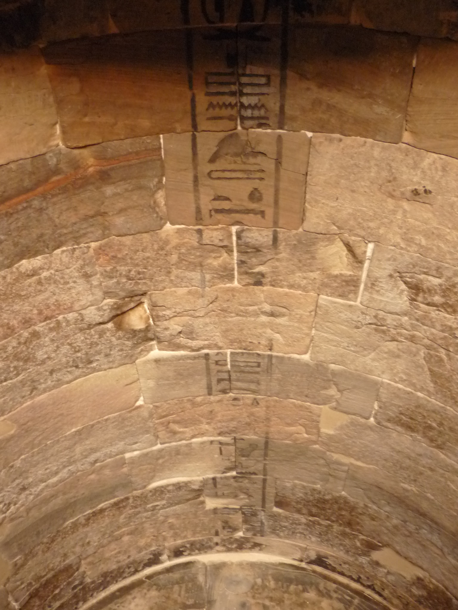 Ceiling of the tomb of Amenirdis, tombs of the Divine Adoratrice of Amun, Medinet Habu, Theban Necropolis, Egypt